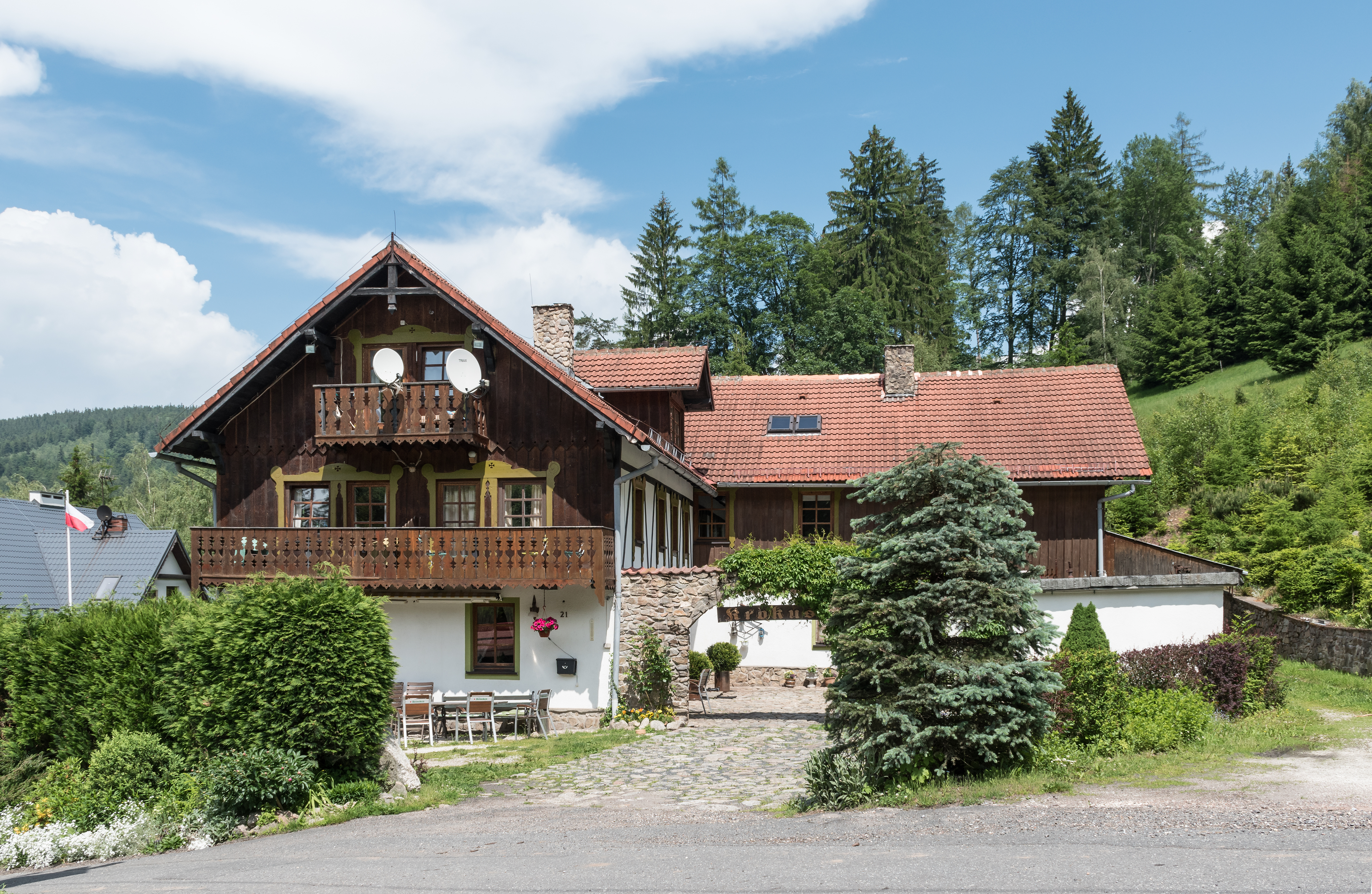 21 Wojska Polskiego Street in Międzygórze